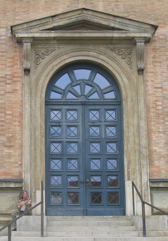 Alte Pinakothek in Munich, Germany: Klenze-Portal